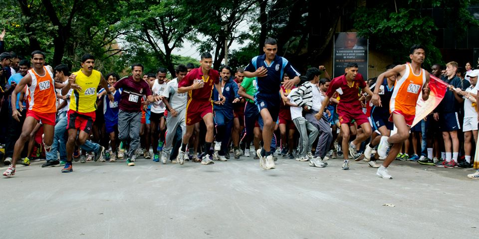 Kanyathon, the annual marathon to save girl child